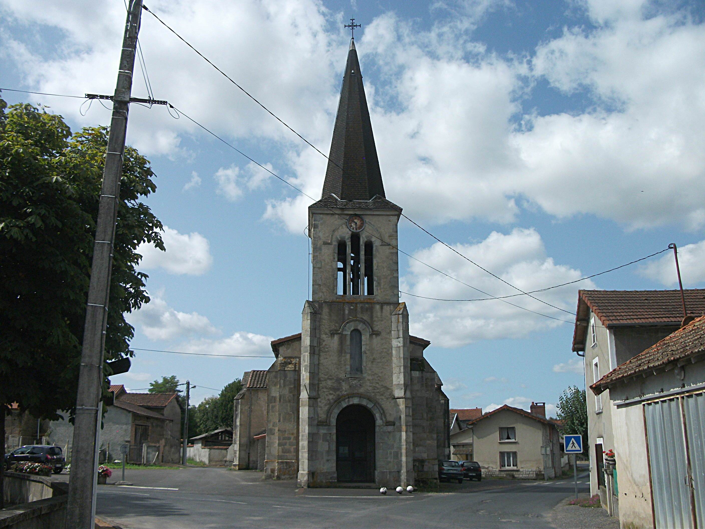 Church of Charnat, Puy-de-Dôme, Auvergne-Rhône-Alpes, France [15126]